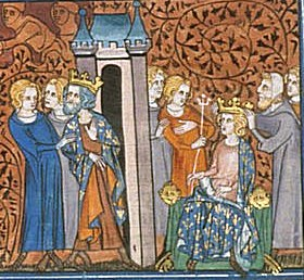 Charles the Simple imprisoned and Raoul crowned